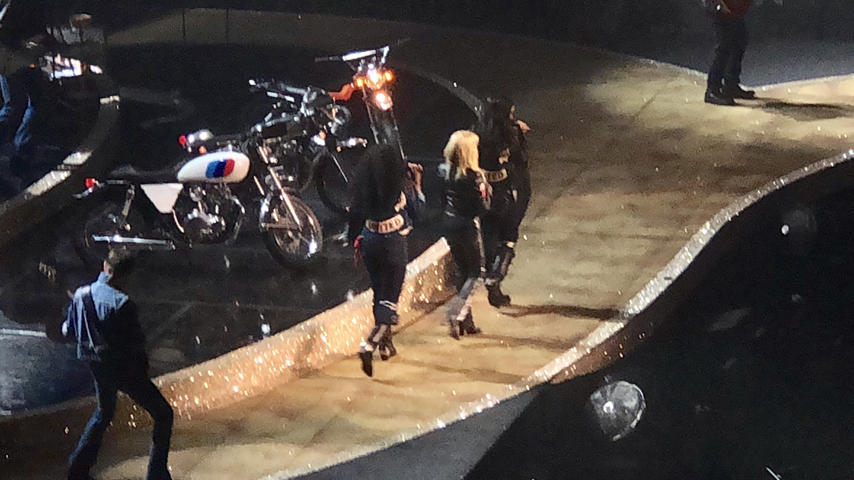 Kylie Minogue performing "Kids" at the Echo Arena, Liverpool UK, on 3 October 2018.